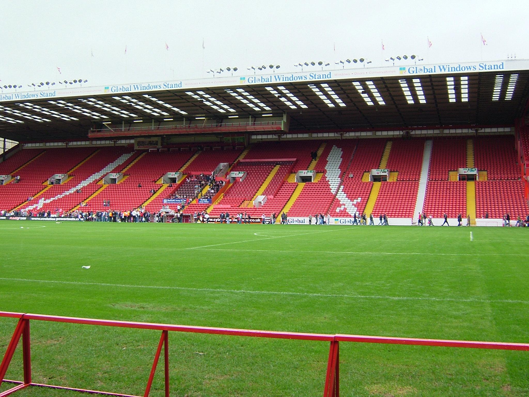 author:Lewis Skinner source:self made